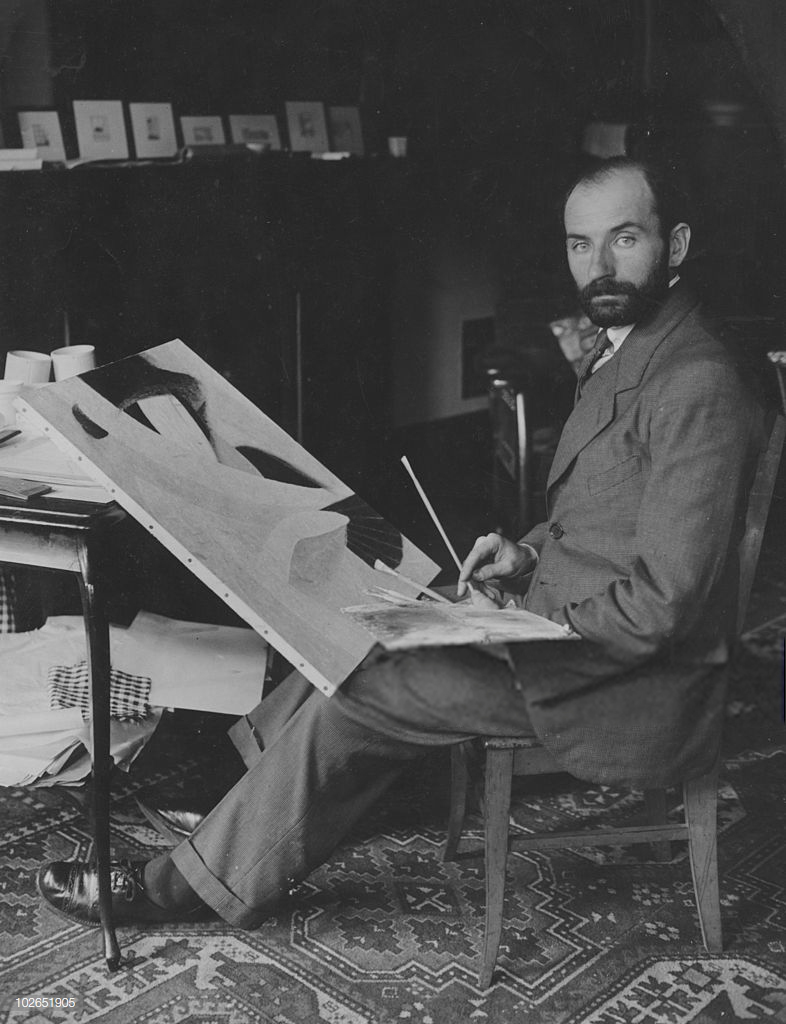 Portrait photograph of Jean Crotti